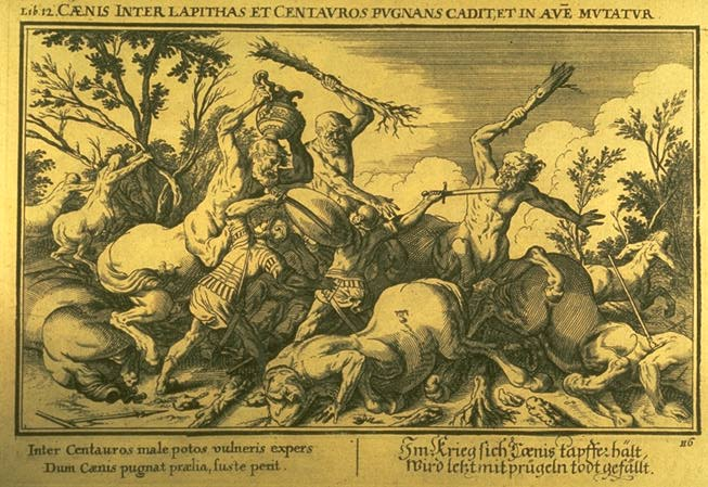 Caeneus and Centaurs. Engraving by Bauer for Ovid's Metamorphoses Book XII, 470-535.